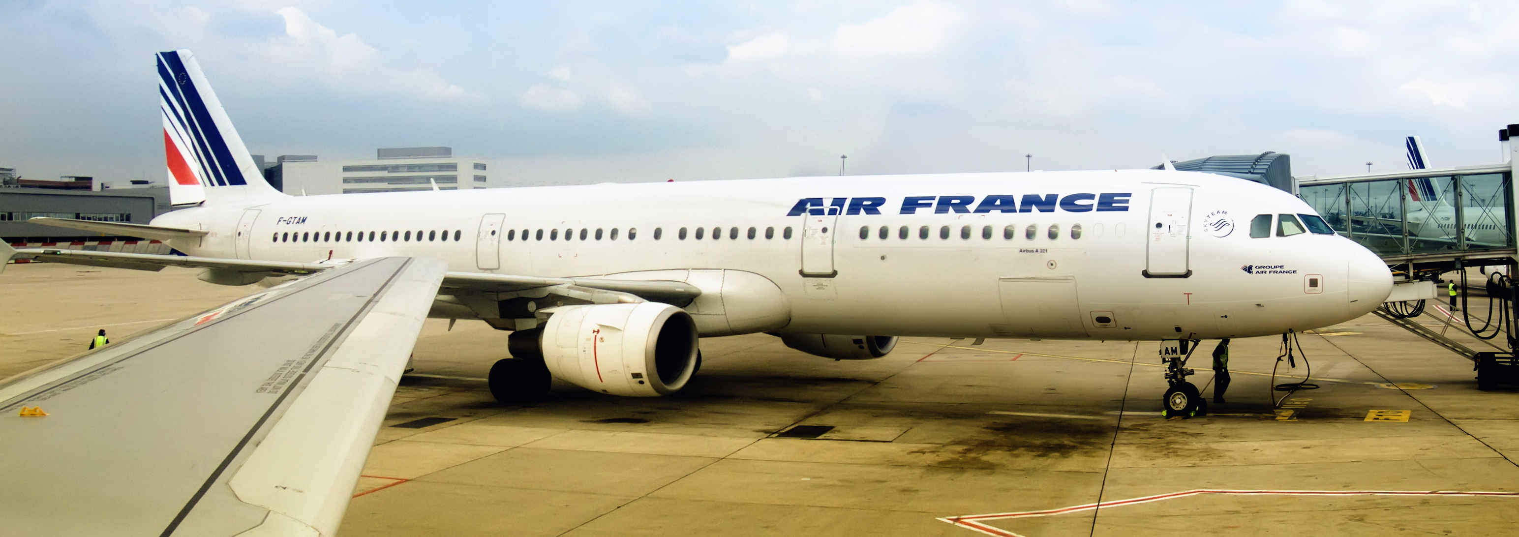 The following is the author's description of the photograph quoted directly from the photograph's Flickr page."Panoramic composition of Airfrance airbus a321 (2 pics).Tag Your Airplane Pics!(aerotagging)1. Get the airport ICAO code.2. Get the airline ICAO code.3. Get the aircraft manufacturer: there is no standard except for McDonell Douglas (MD). But try airbus, boeing, beech, bell (notice there are no spaces in each one).4. Get the aircraft model: usually is the major model of the aircraft, like 747, or A320.5. Get the aircraft series: usually the sub-version of the aircraft. If you have an airbus A320-211, the series is 211.6. Get the tail registration of the aircraft: This one could be tricky. If you don't know the tail number, check your picture carefully, cause sometimes, you can get it by looking the nose wheel doors, or the wing undersurface. For example, you have one Air France airbus with AM on the nose wheel doors. Then you just google about it or look in places like or and you will have that AM only belongs to Air France for the airbus A321 with tail number F-GTAM. Easy.7. Look for the manufacturer's serial number. is a good source for the number you are looking for.Now that you have all this, use the tags: aerotagged, aero:airport=code, aero:airline=code, aero:man=manufacturercode, aero:model=code, aero:series=code, aero:tail=tailcode, aero:msn=manufacturer's serial number.There is one more tag: aero:special=XX (use for special modifications of the aircraft like ER (extended Range) or LR (long range), but is not used very often). Check link The Airline Codes Web Site. "